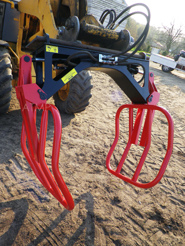 chwytak do bel balotów sianokiszonki